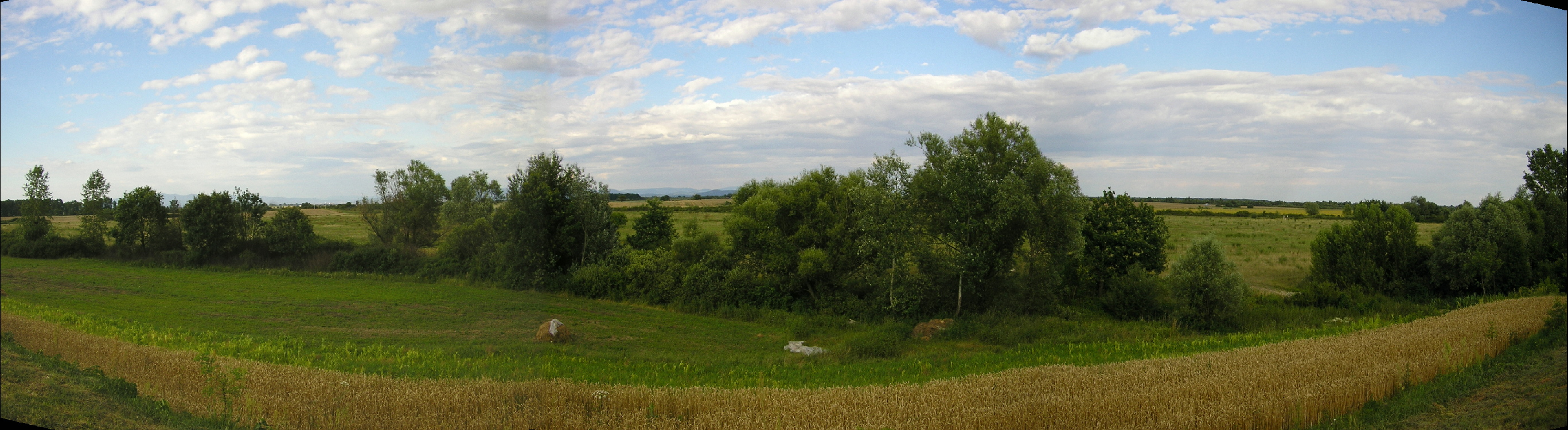 Slovakian-Ukranian borderline, looking east, Ptrukša, Slovakia